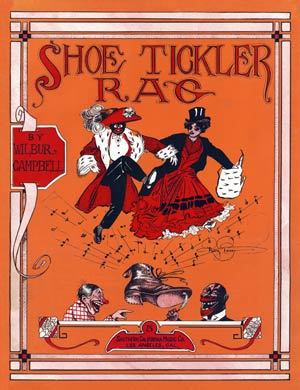 The illustrated music sheet cover for Shoe Tickler Rag, an example of American ragtime dance music from 1911.